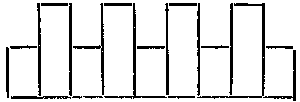 Schematic drawing of the orthostats and the dry stones of tombs 1 and 2